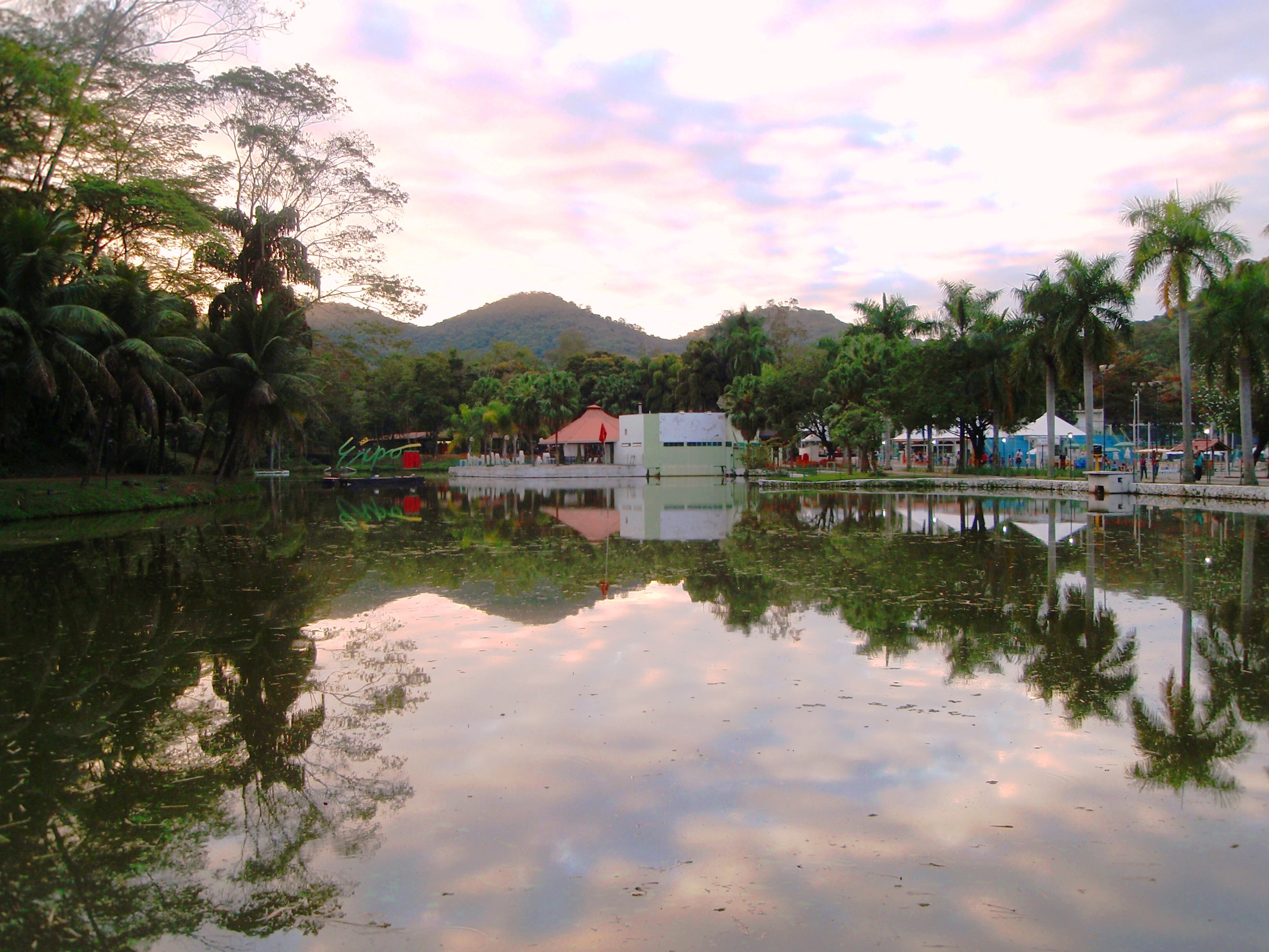 Usipa Lake, in Ipatinga, Minas Gerais, Brazil.